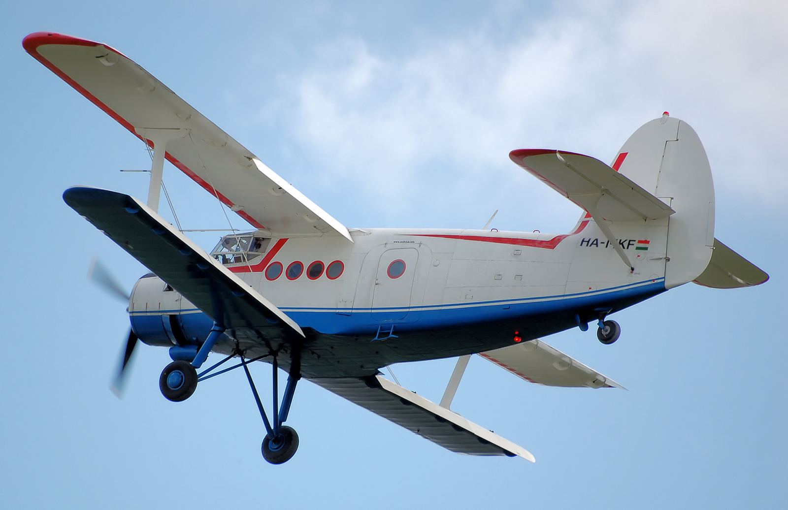 Privately-owned Antonov An-2 (HA-MKF) at Kemble Battle of Britain Weekend, Cotswold Airport, Gloucestershire, England.